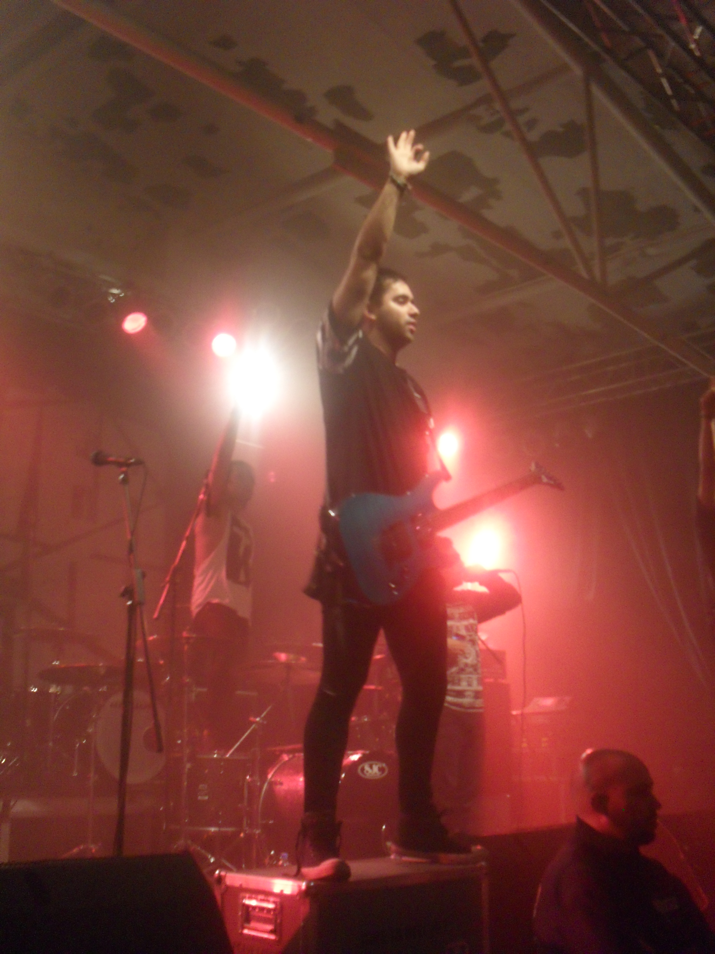 Palisades performing live in Cologne